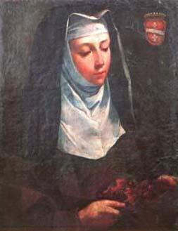 Blessed Angelina of Marsciano (also, of Montegiove, or of Corbara)